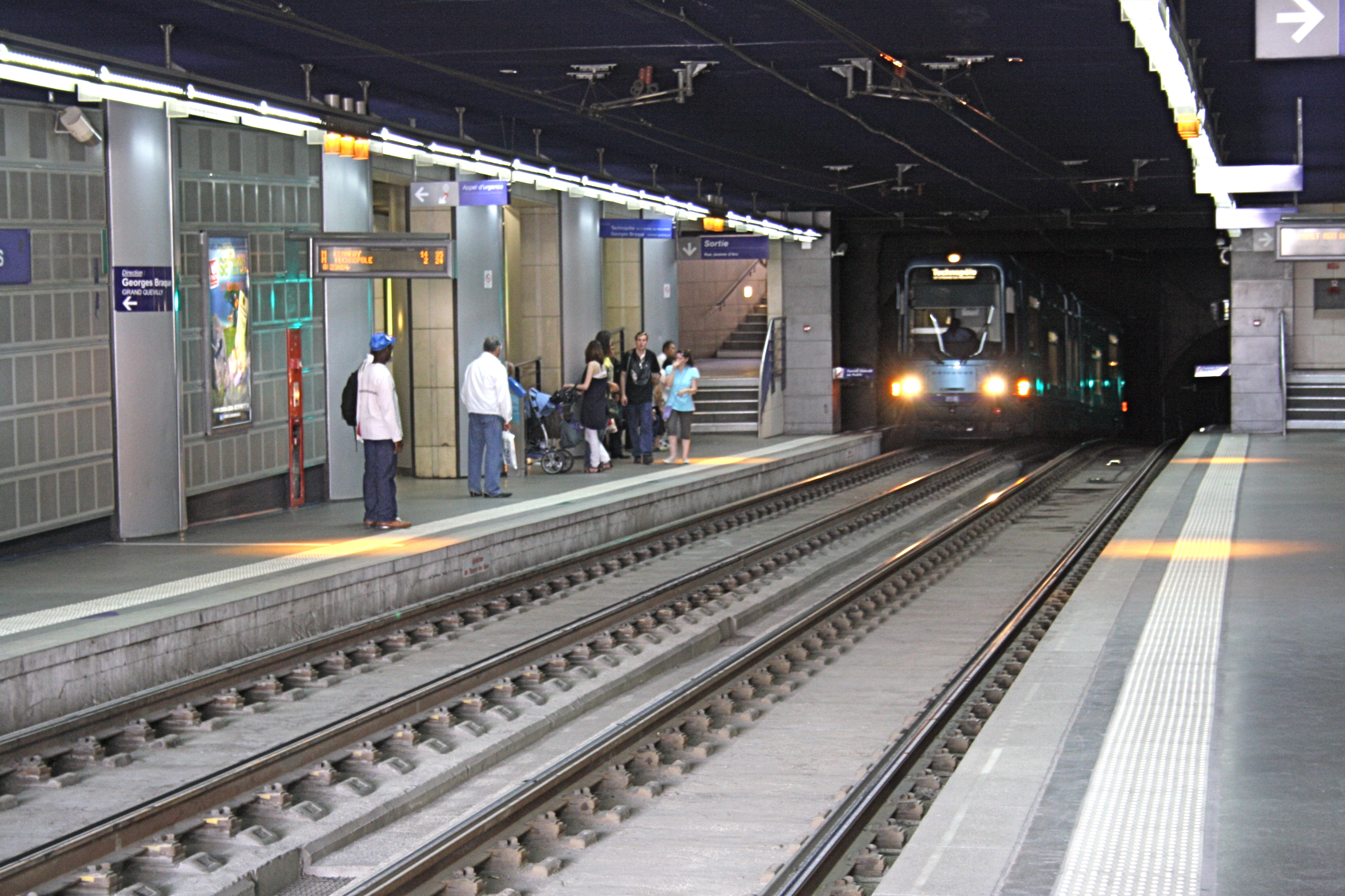 Rouen Théâtre des Arts station